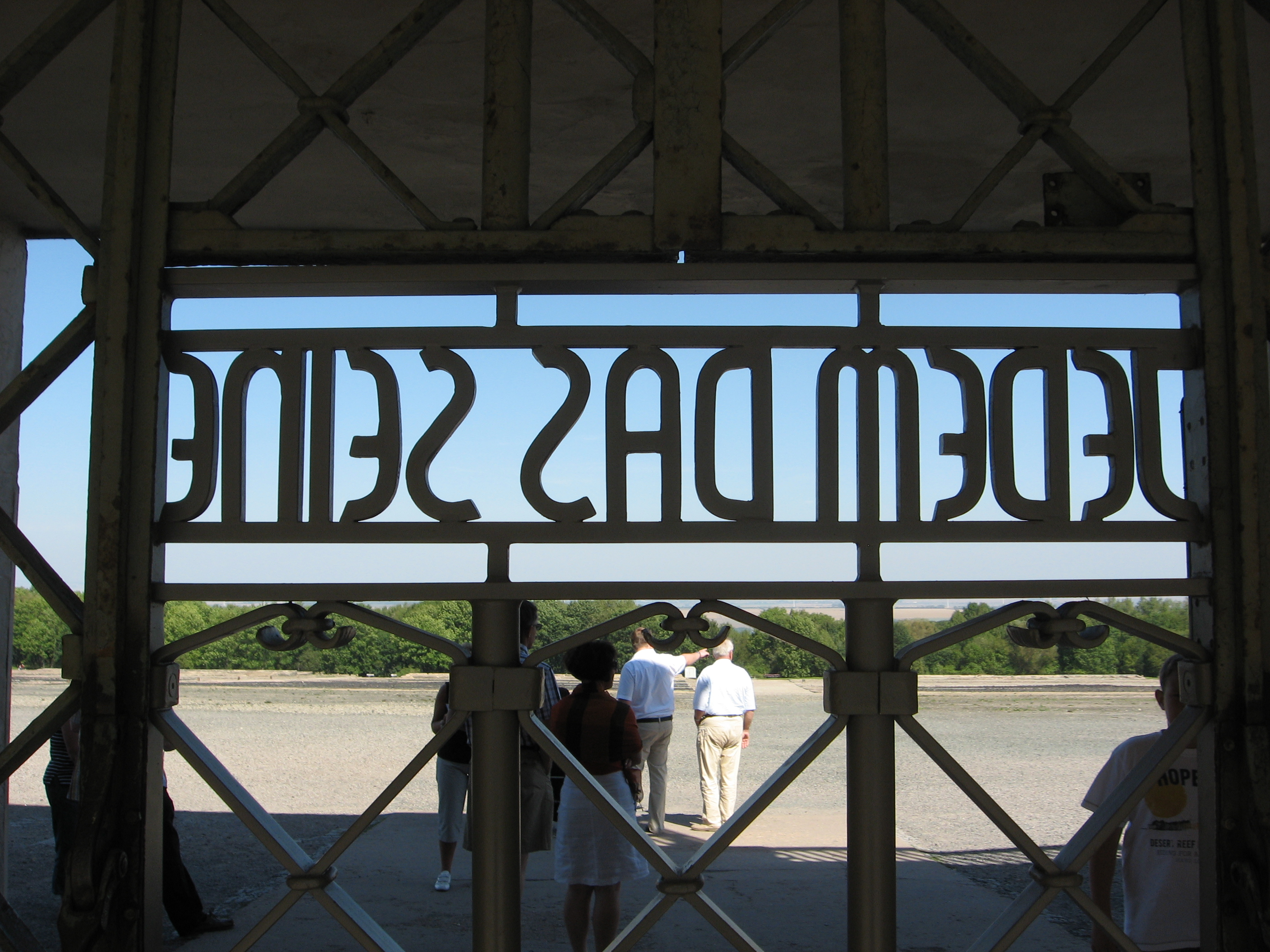 The sign at the main gate, which says: "To each his own"